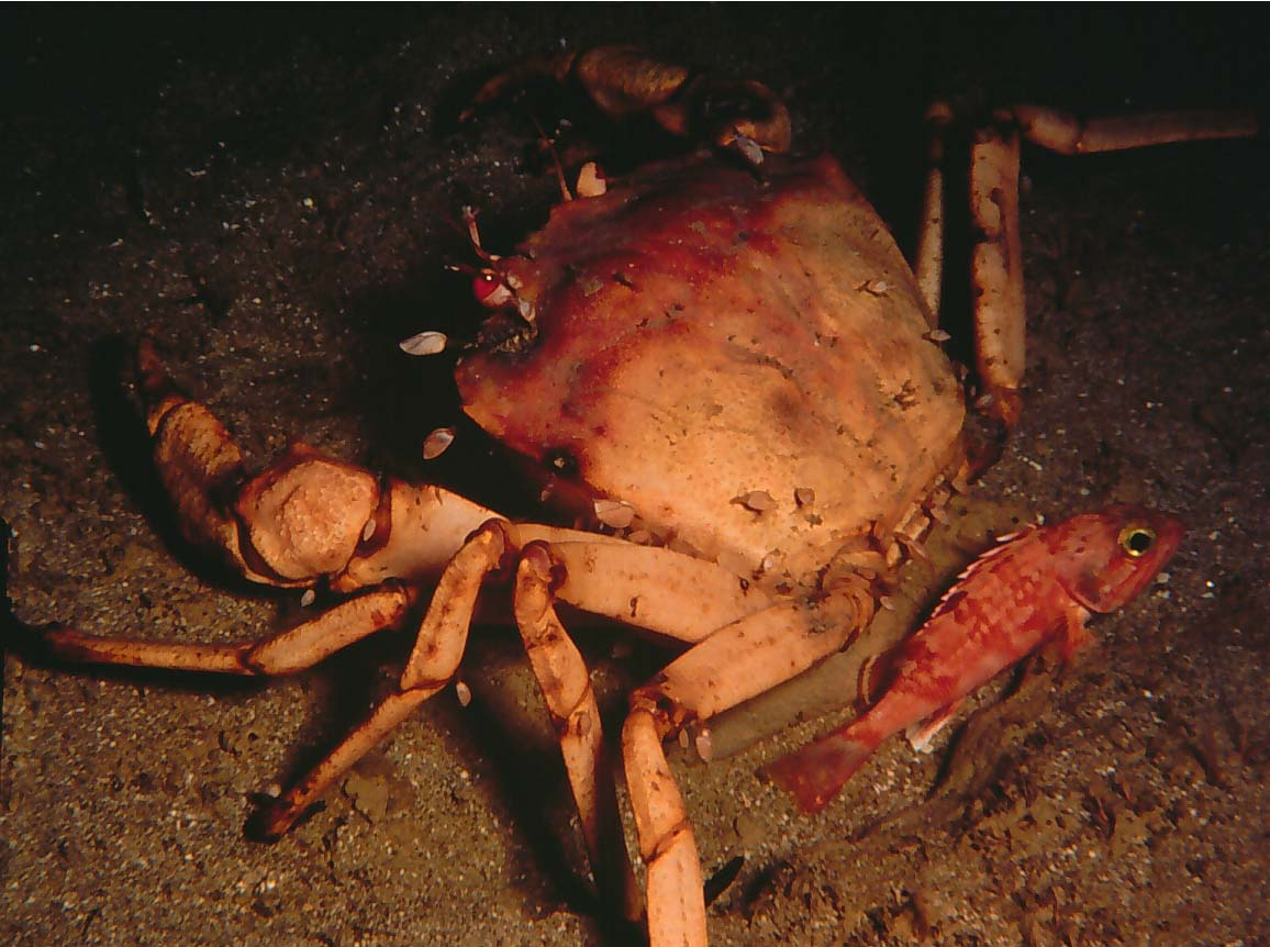 The golden crab (Chaceon fenneri), is a large ("dinner-plate sized") bottom-dwelling crab found in the Atlantic Ocean off South Eastern U.S. and the Gulf of Mexico. It is also known as the golden deepsea crab. The fish on the photo is a blackbelly rosefish (Helicolenus dactylopterus). This example was photographed at the Charleston Bump, just offshore from Charleston, South Carolina, USA by Betty Wenner, SCDNR. Taxonomy: Infraorder: Brachyura Family: Geryonidae